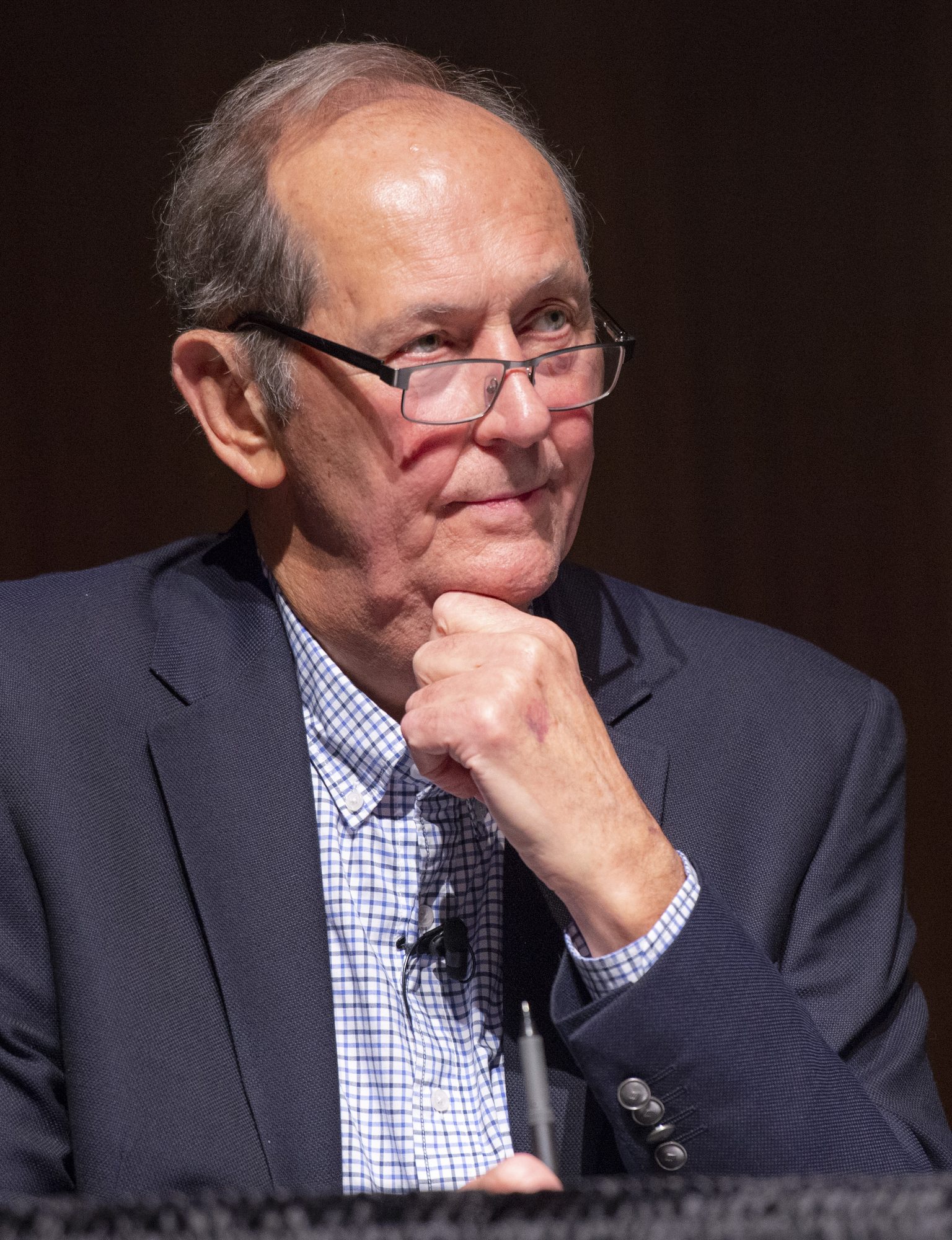 On Tuesday, Feb. 11, 2020, former U.S. Senator Bill Bradley (D-New Jersey) presented his one-man performance, Moving Forward, to Friends of the LBJ Library. Moving Forward is Bradley's American journey—from a small Missouri town on the Mississippi River to Princeton University and on to Oxford as a Rhodes Scholar, followed by 10 years playing professional basketball for the New York Knicks (1967-1977), 18 years serving in the U.S. Senate (1979-1997) and, in 2000, running for president of the United States.